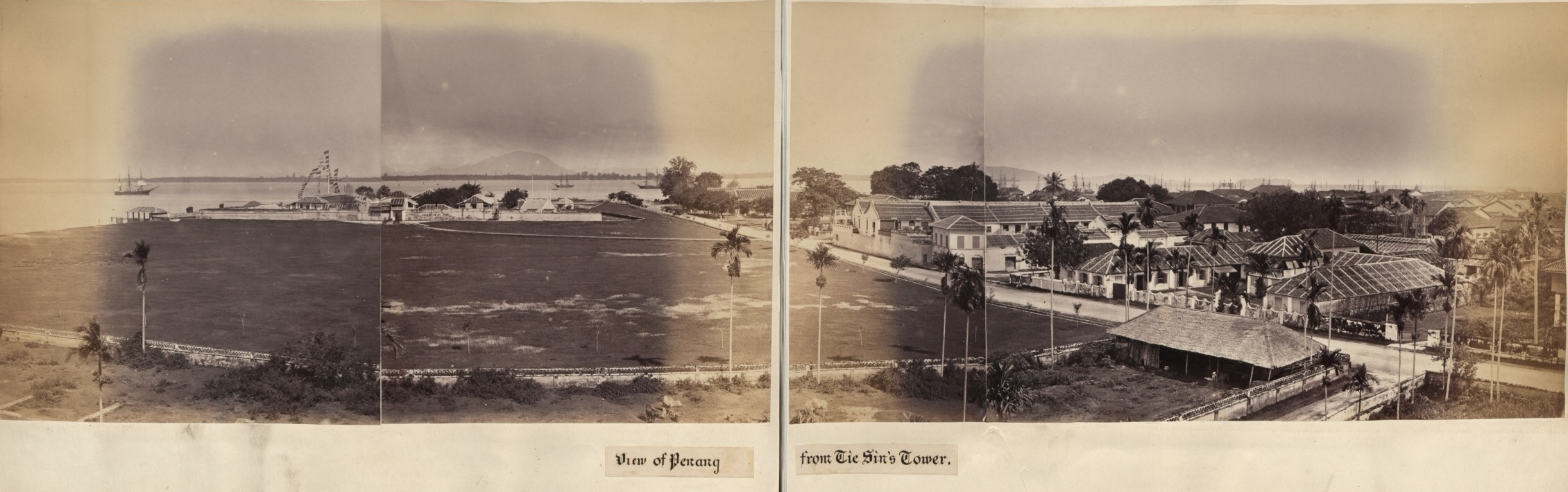 Description: View of Penang from Tie Sin's Tower. Location: Penang, Malaya Date: 1860-1900 Our Catalogue Reference: Part of CO 1069/484. This image is part of the Colonial Office photographic collection held at The National Archives. Feel free to share it within the spirit of the Commons. Please use the comments section below the pictures to share any information you have about the people, places or events shown. We have attempted to provide place information for the images automatically but our software may not have found the correct location. For high quality reproductions of any item from our collection please contact our image library